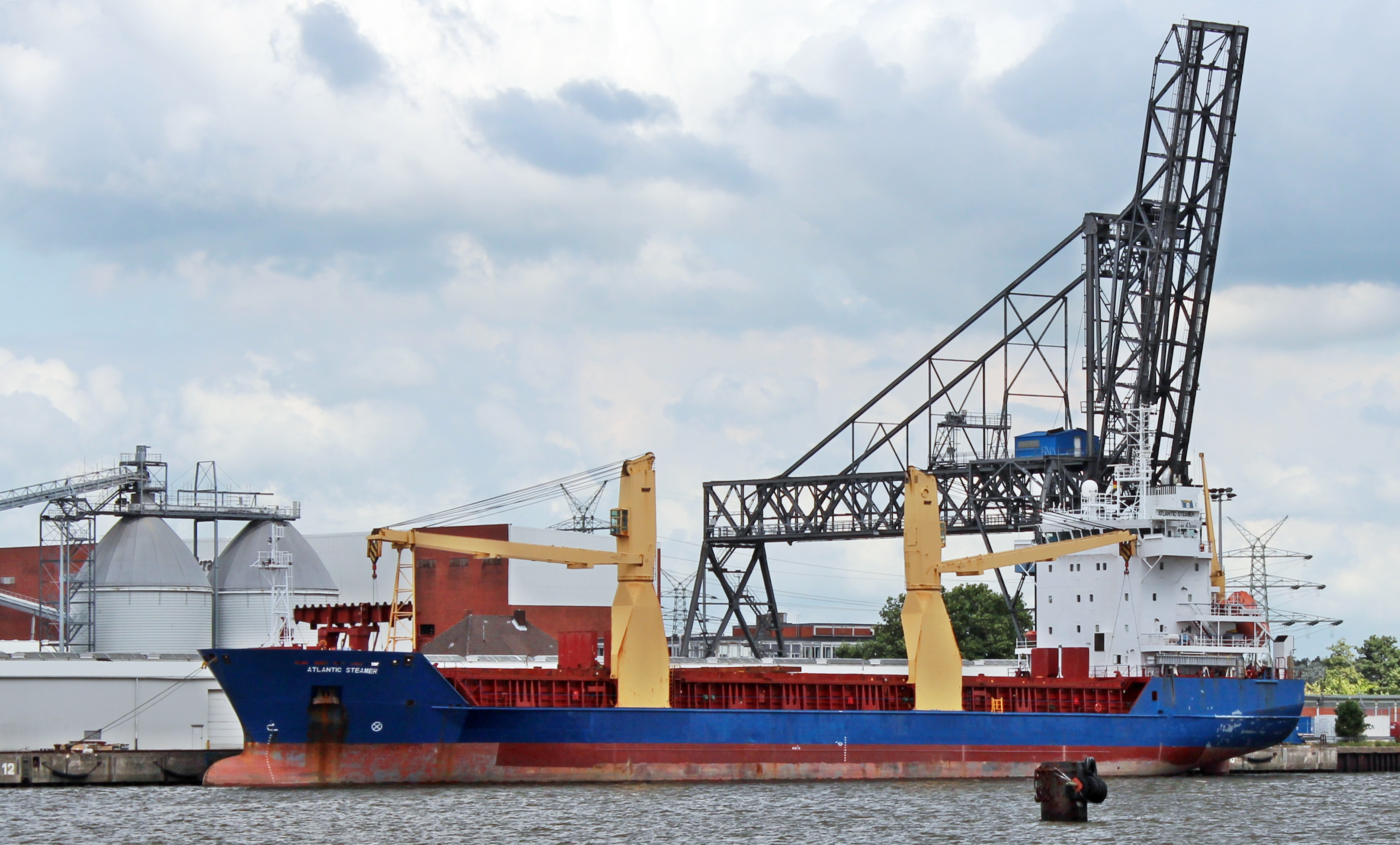 Multi purpose vessel Atlantic Steamer in the Port of Emden